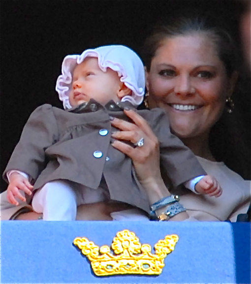 Crown Princess Victoria and Princess Estelle at the Royal Palace in Stockholm on the king's 66 birthday on April 30 2012.